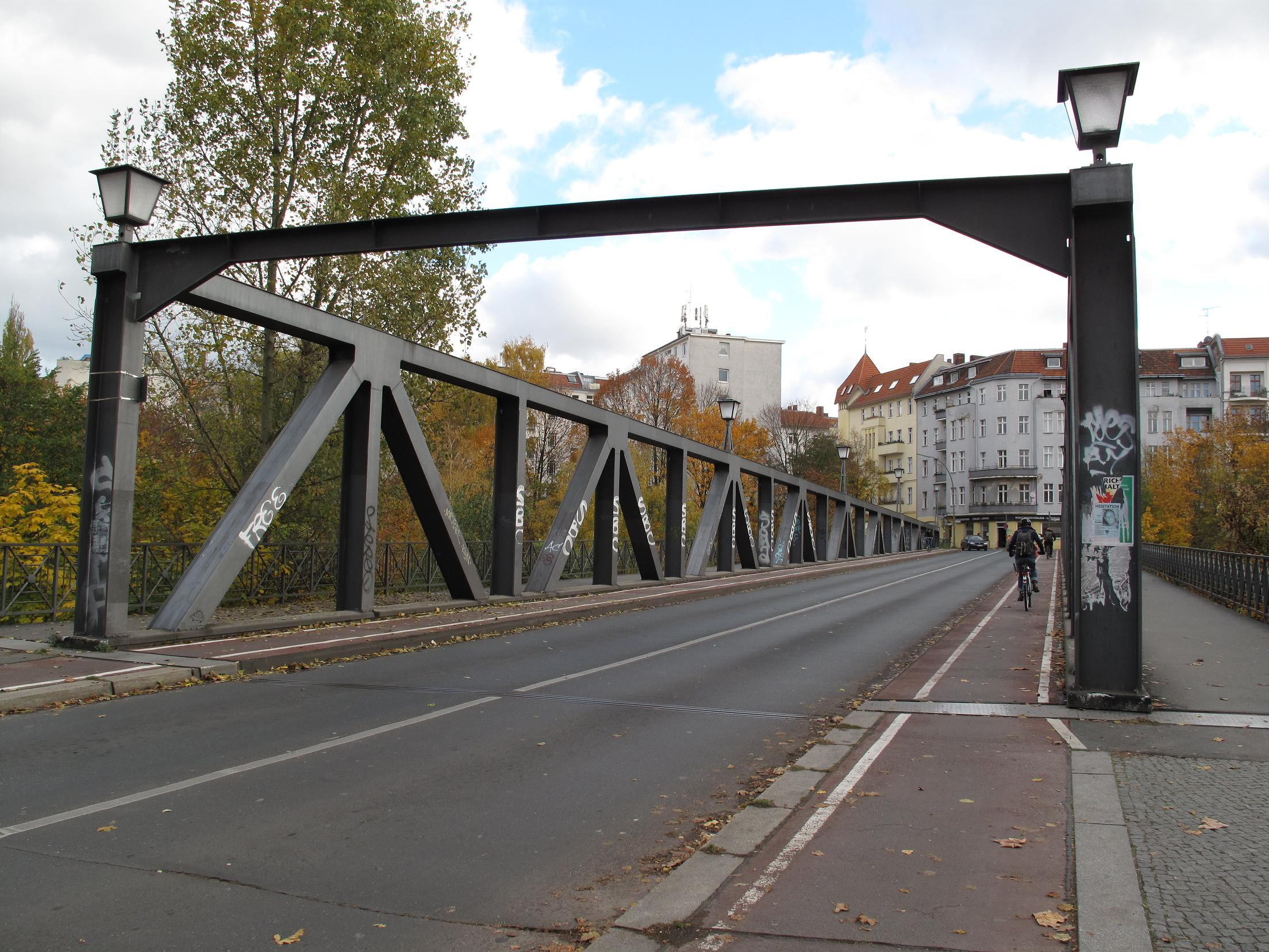 The Langenscheidtbrücke is a street-bridge of the Monumenten-/Langenscheidtstraße in Berlin-Schöneberg crossing the Wannseebahn. The steel-frame-bridge was built in 1898/99 and rebuilt largestly after the historical original in 1987/89.